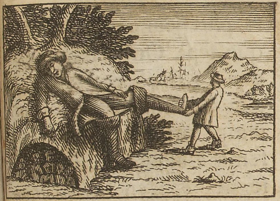 Illustration to "Le Petit Poucet" in the 1697 First editione to the Contes